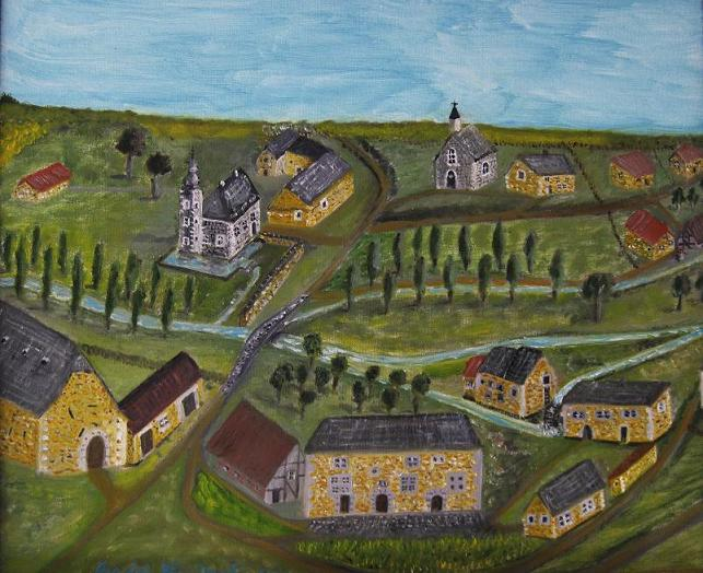 Photograph of a personnal painting representing my village 2 centuries ago